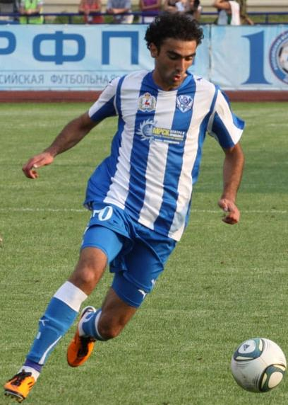 Vagif Javadov playing for FC Volga Nizhny Novgorod